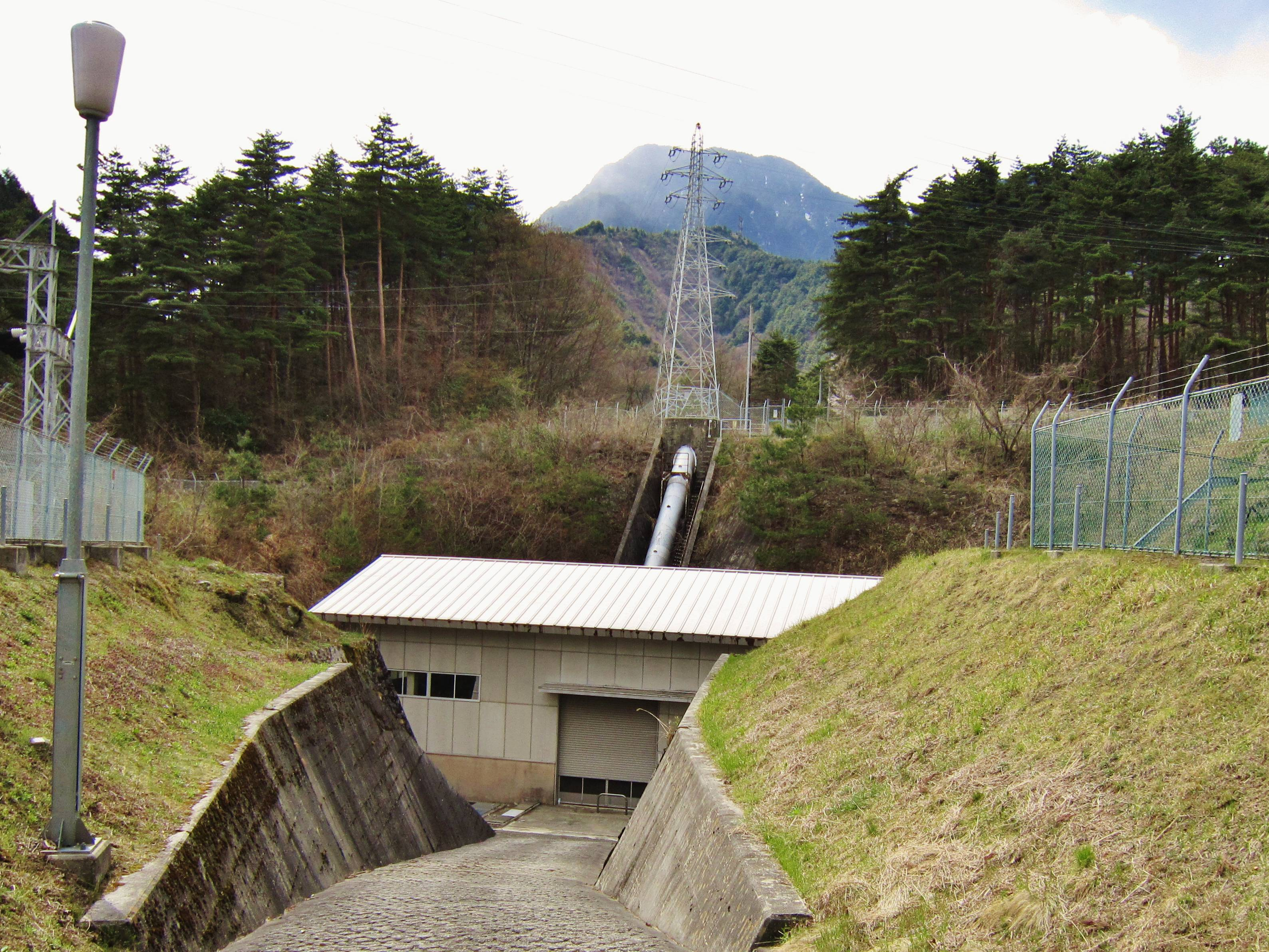 Miyashiro III power station.